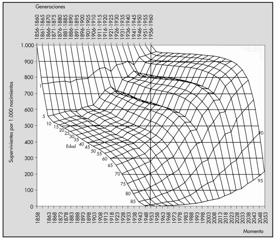 Graphic. Survivors by age. Female generations. Spain. 1856-1960. Julio Perez Diaz.